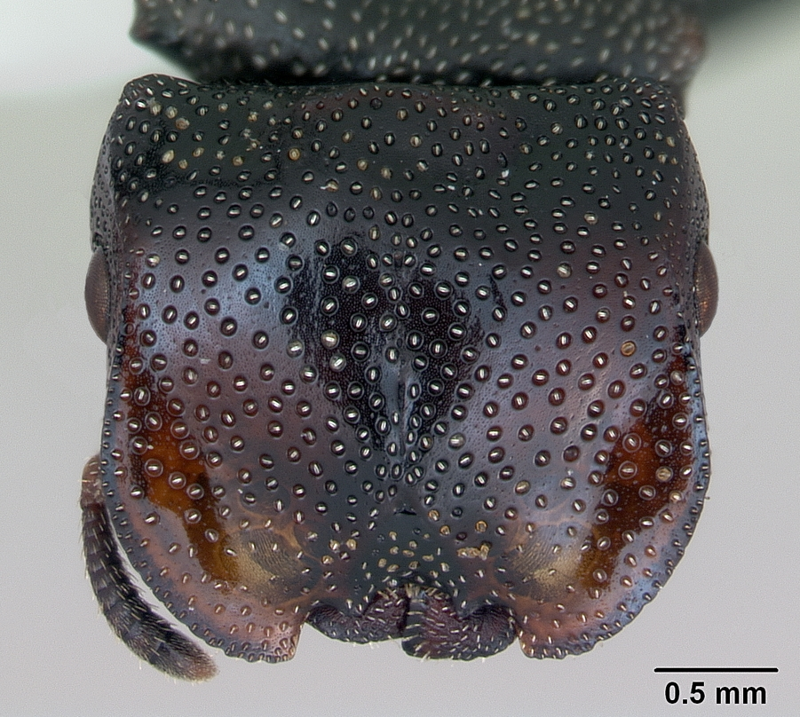 Head view of ant Cephalotes bruchi specimen casent0173667.